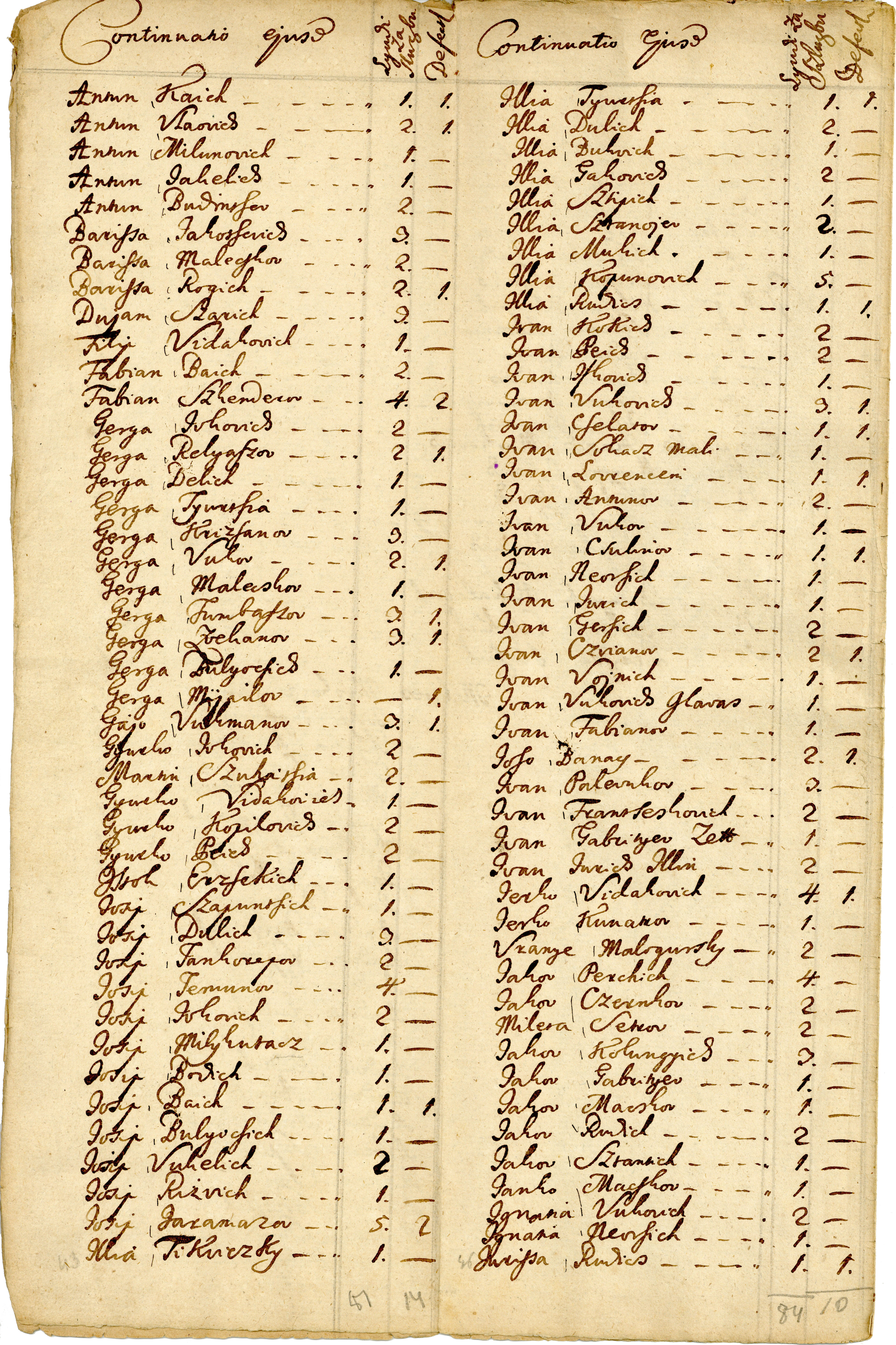 A 18th-century list of soldiers who served in military trench of Subotica